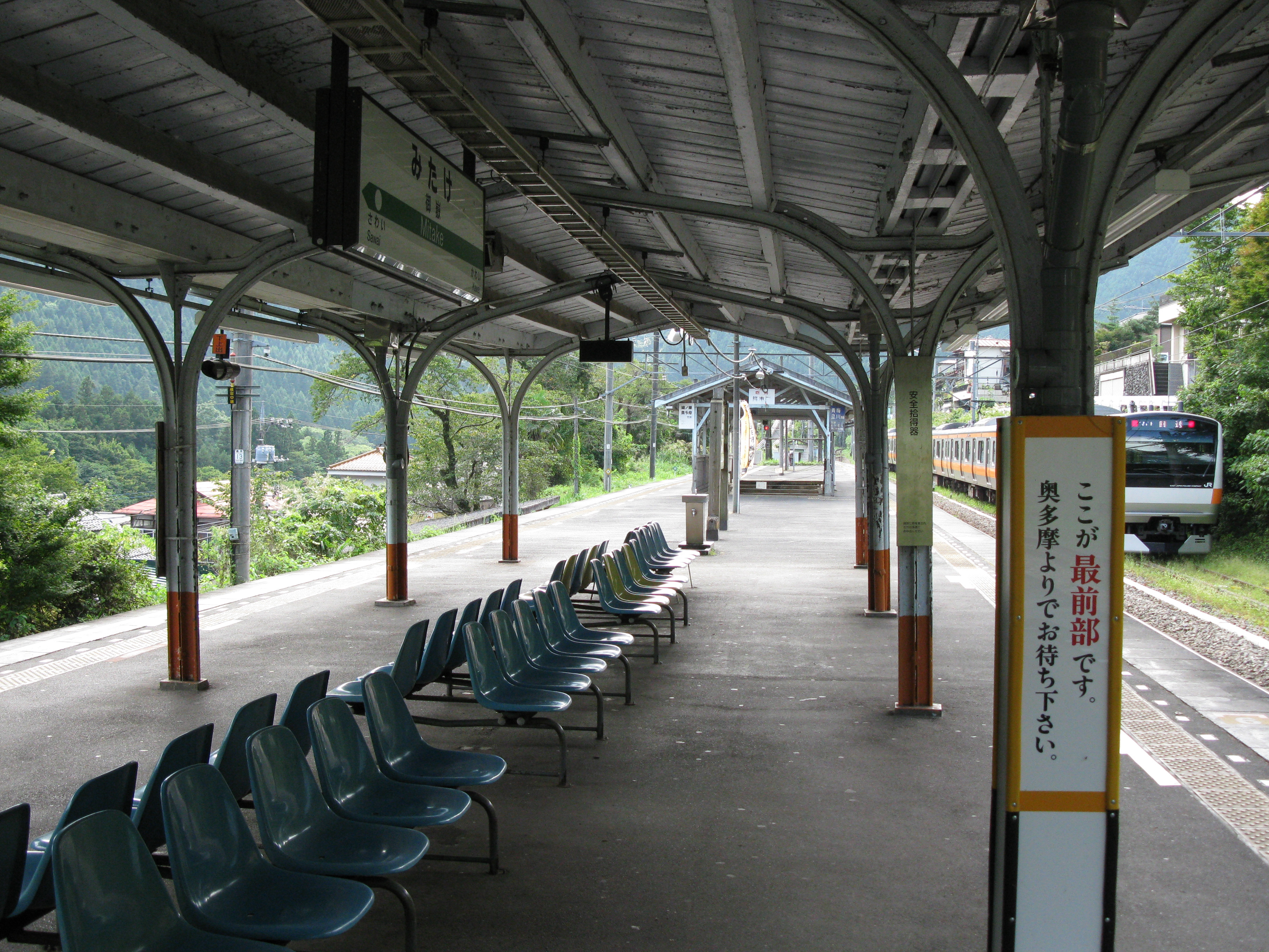 The platform at Mitake Station on the East Japan Railway(JR East) Ōme Line in Ōme city, Tokyo, Japan